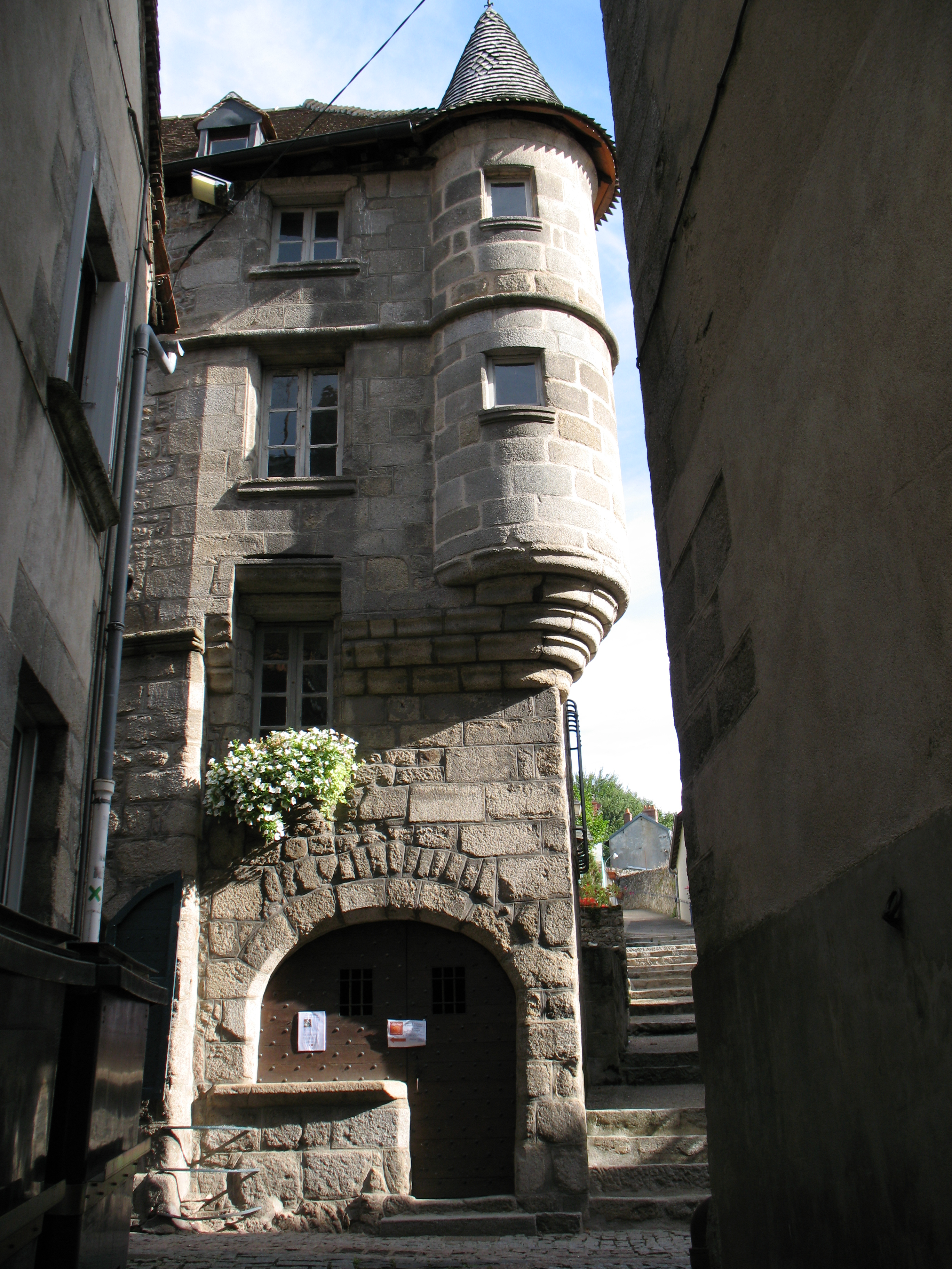 Aubusson